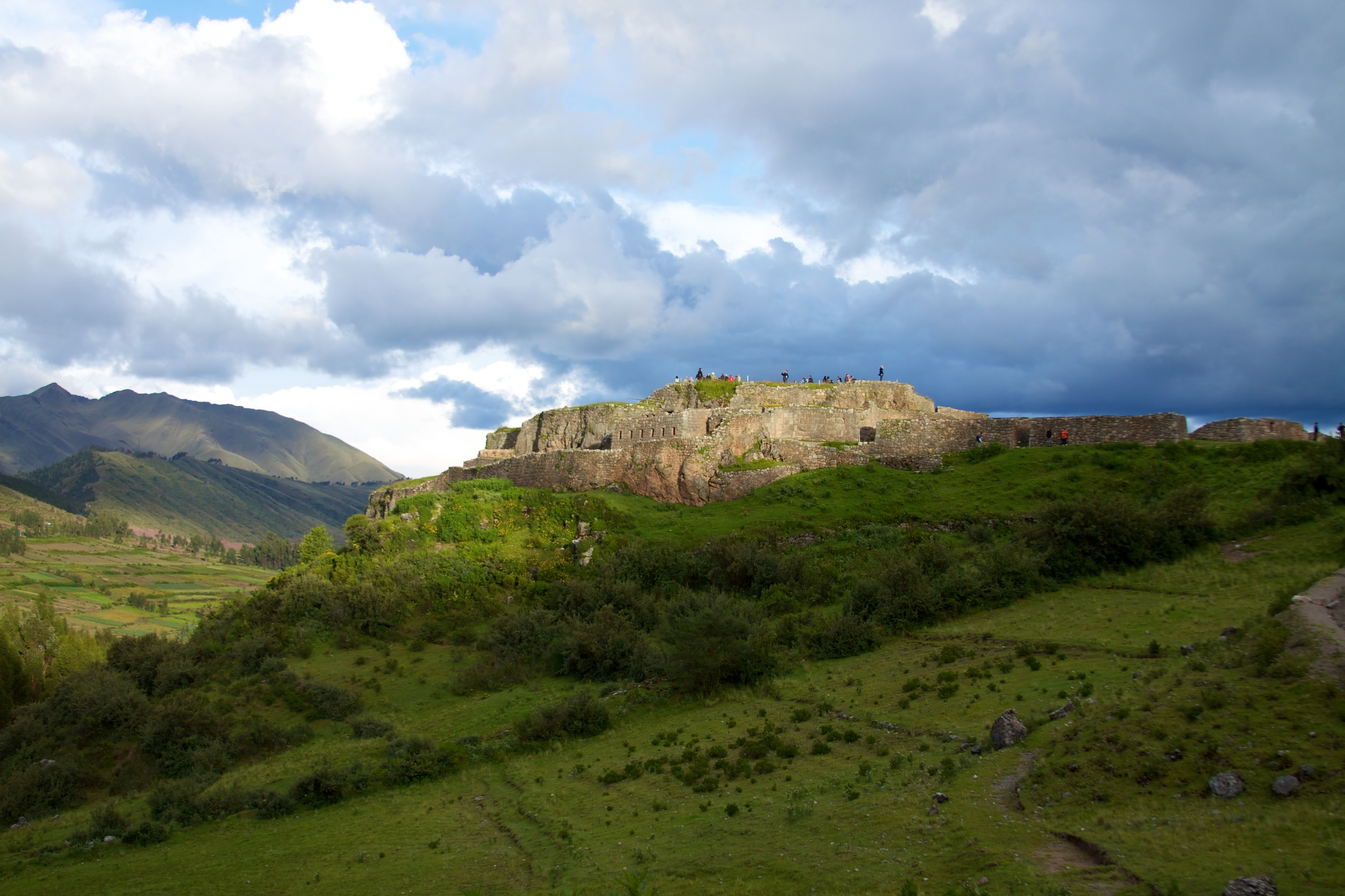 Pukapukara was a former Incan fortress checkpoint and administrative centre. Sitting on a hill over a large valley, it's got a gorgeous view from its stone walls. It's name means "Red Fort" and you can see a little of the colour here in the late afternoon light.